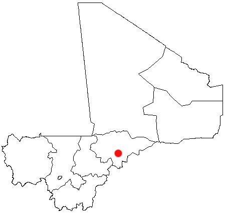 Bankass, Mali Location Map; created with the GIMP. Made by User:Acntx.